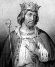 Robert II of France